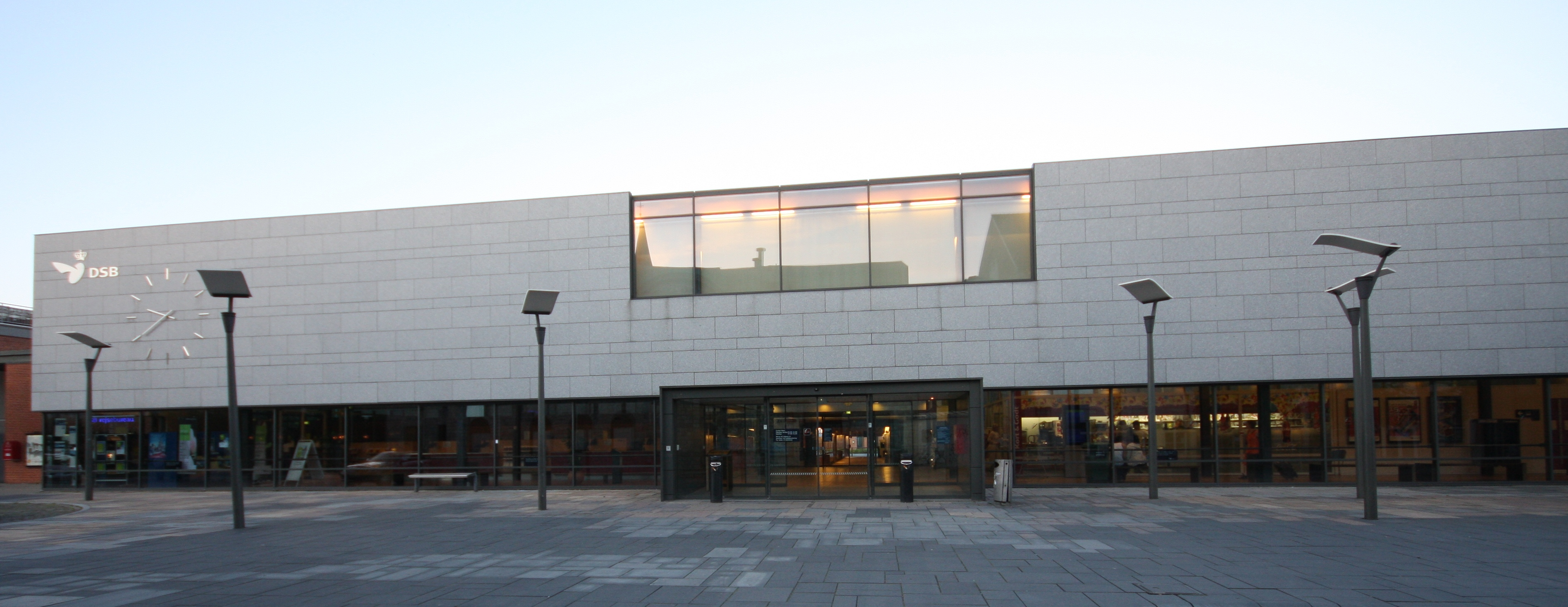 The train station in Vejle, Denmark